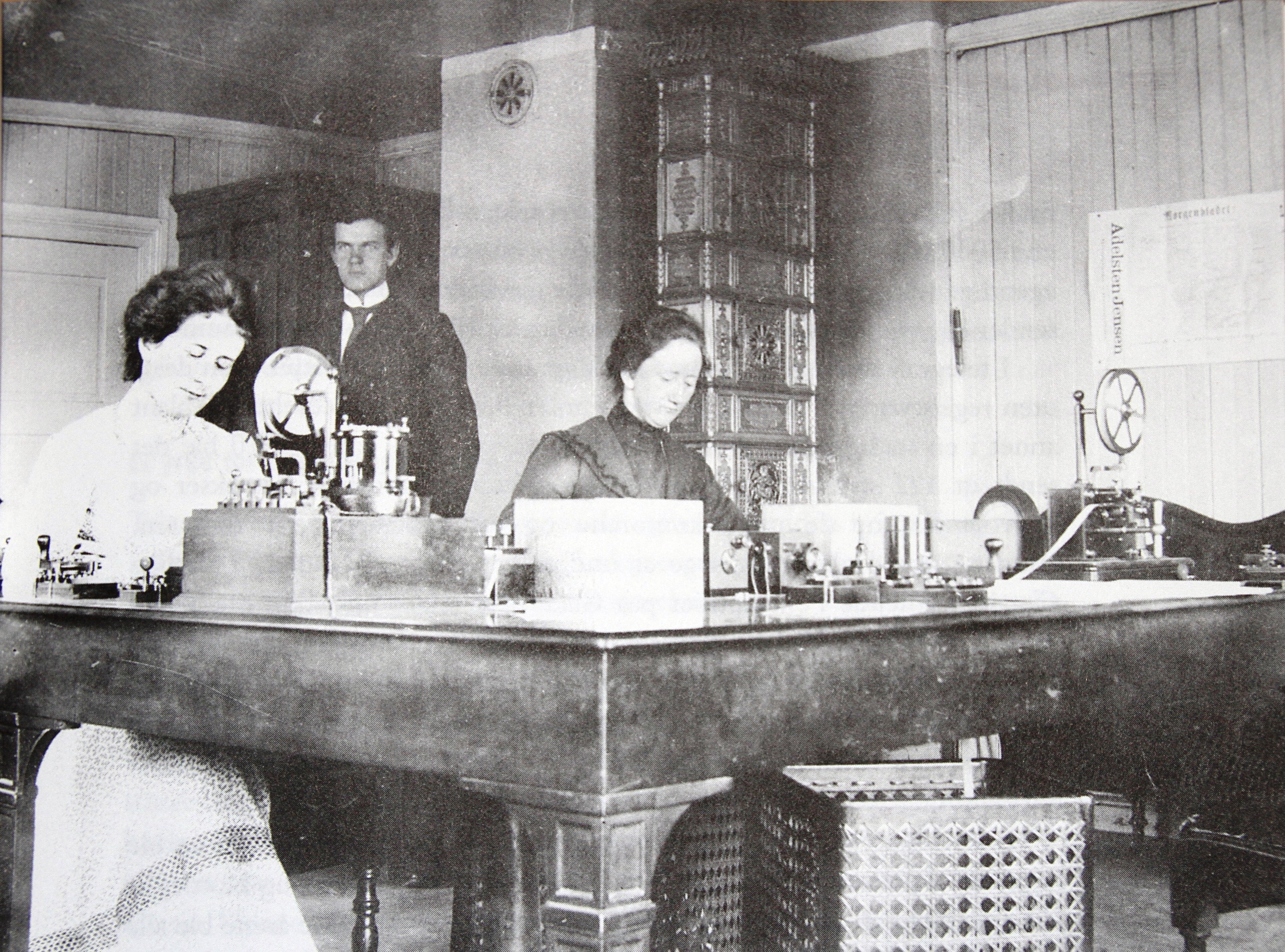 Telegraph station interior from Mosjøen, Norway, 1906